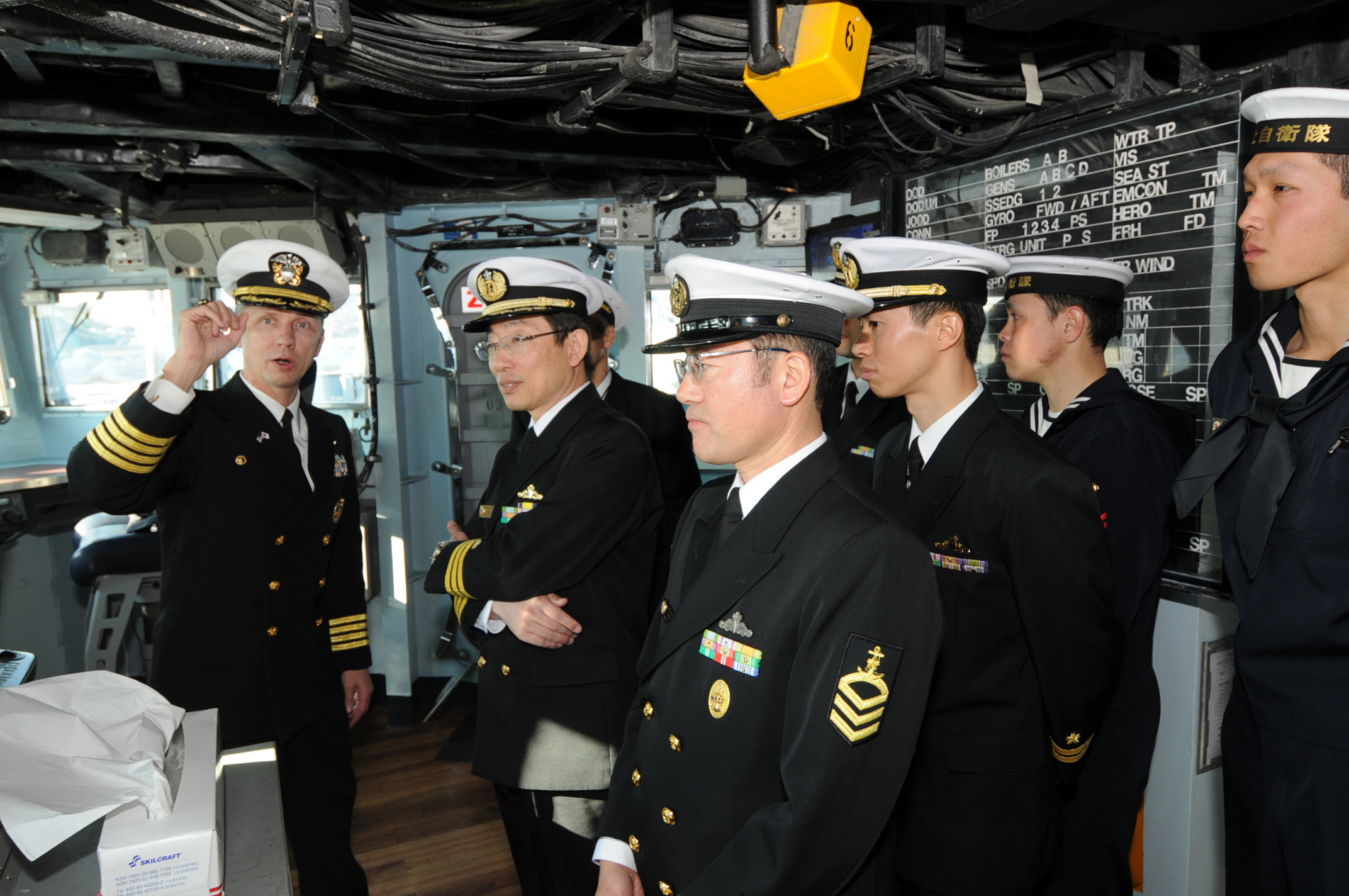 YOKOSUKA, Japan (Dec. 19, 2008) Capt. Thom W. Burke, left, commanding officer of the amphibious command ship USS Blue Ridge (LCC 19), discusses different aspects of the bridge with sailors from the Japan Maritime Self-Defense Force ship Tachikaze (DDG 168). Sailors from Tachikaze, which is known as Blue Ridge's sister flagship, visited Blue Ridge for a holiday gift exchange and tour of the ship. Blue Ridge serves under Commander, Expeditionary Strike Group (ESG) 7/Task Force (CTF) 76, the Navy's only forward deployed amphibious force. (U.S. Navy photo by Mass Communication Specialist 2nd Class Josh Cassatt/Released)